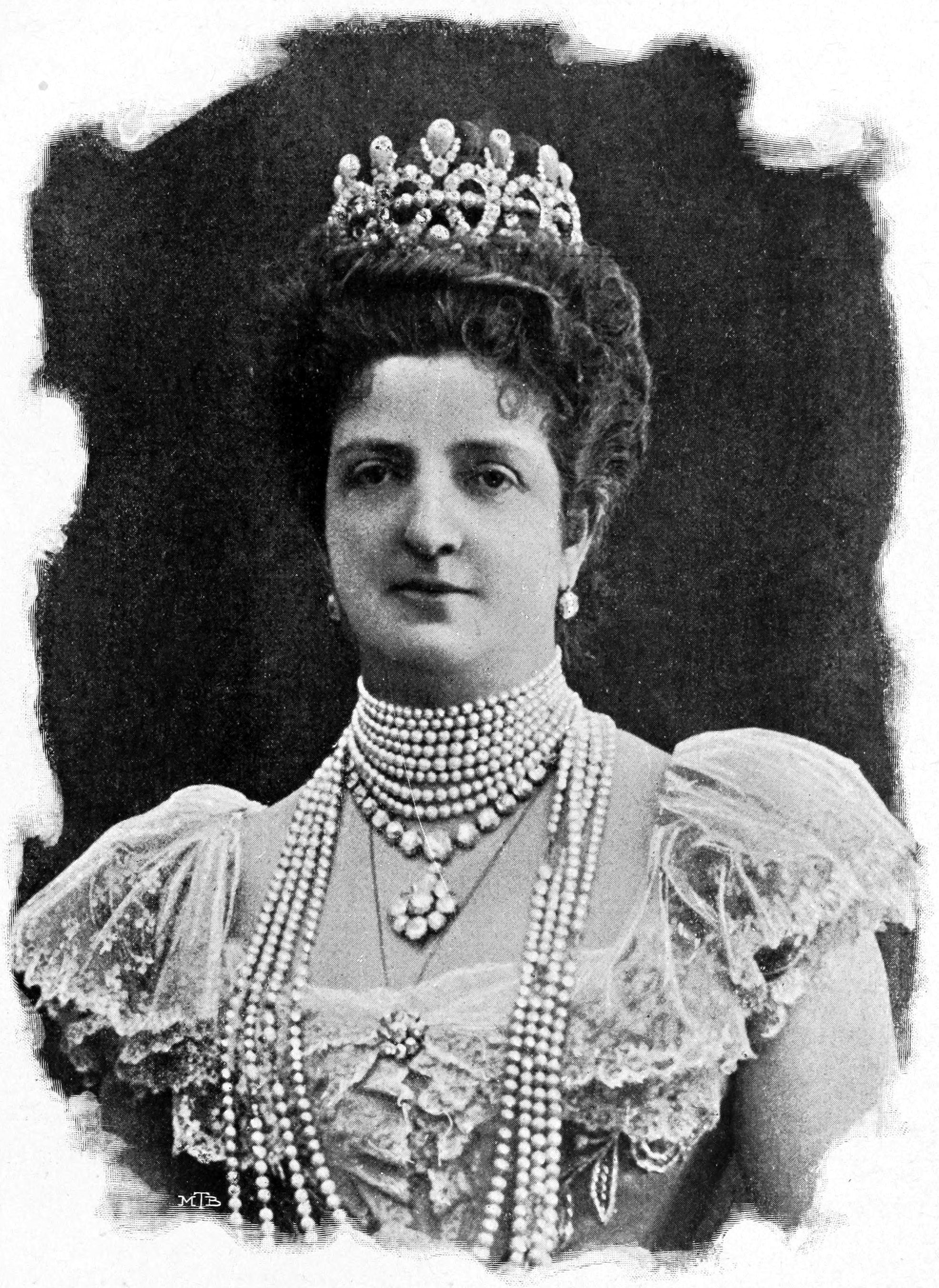 Image from book: Leopoldo Pullè, Patria Esercito Re, Ulrico Hoepli, Milan, 1908. - Margherita of Italy